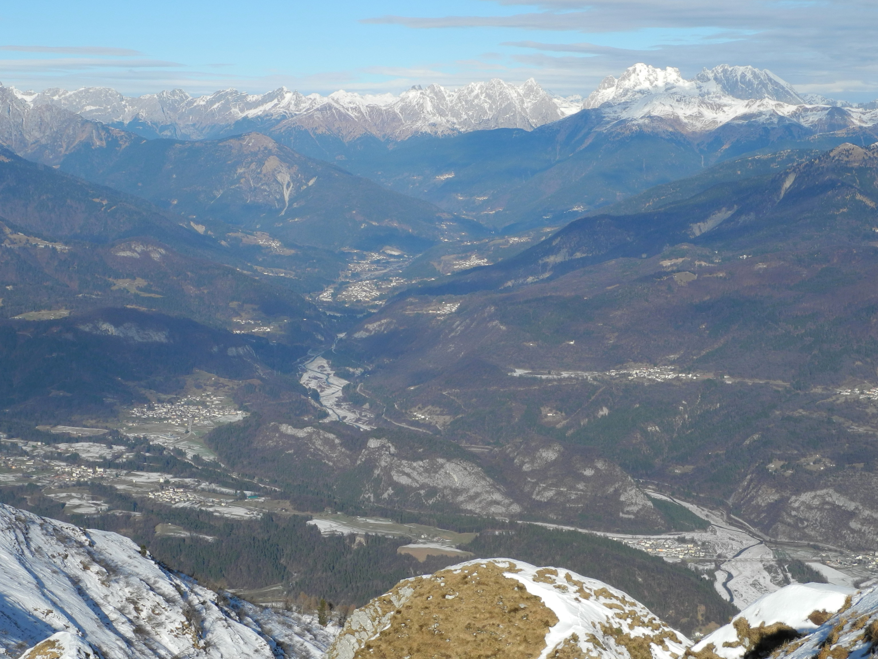 Degano Valley (Udine - Italy) from Mt. Cormolina